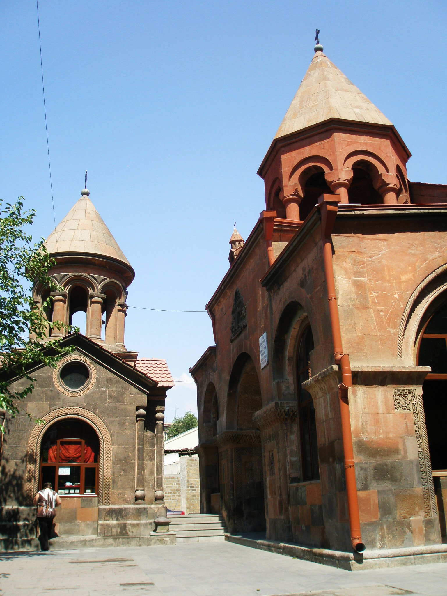 Saint Ananias' Chapel (left) and the Surp Zoravor Astvatsatsin Church (right), Yerevan, Armenia.